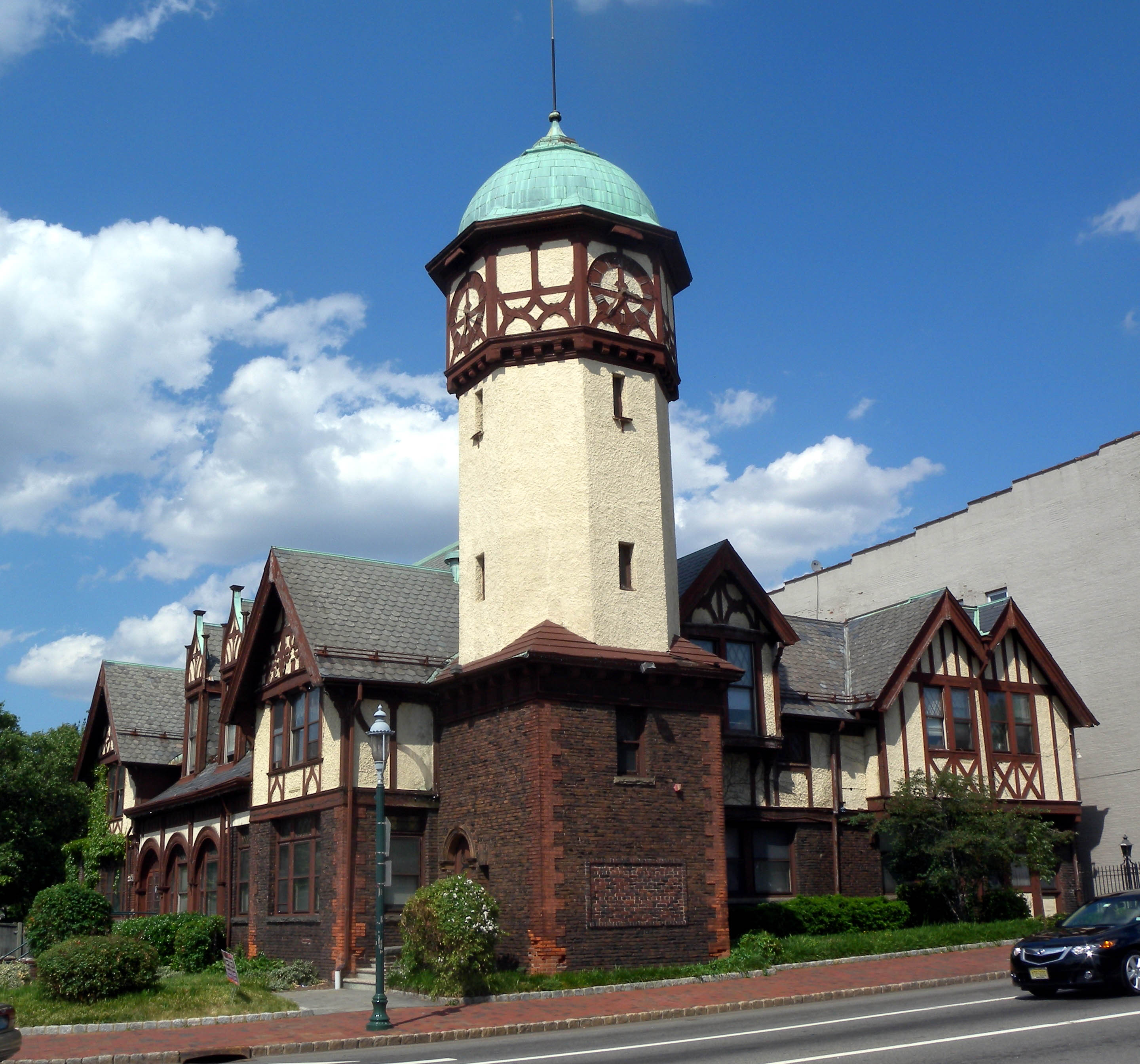 Looking northeast across South Orange Avenue from Scotland Road at the octagonal tower of South Orange Village Hall, on a mostly sunny midday.